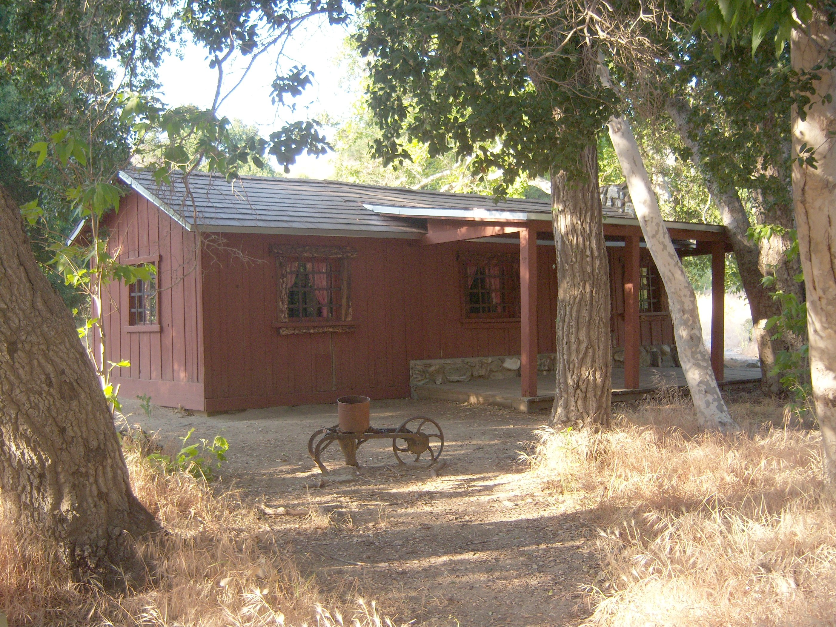 Historic Cabin in Placerita Canyon State Park, originally built in 1920 by pioneer homesteader Frank E. Walker, has recently been restored and furnished. Frank and wife Hortense, raised 12 children here, occupying the small cabin mainly during the winer months when the rain-swollen creek blocked passage to0 the other larger residences further up the canyon.